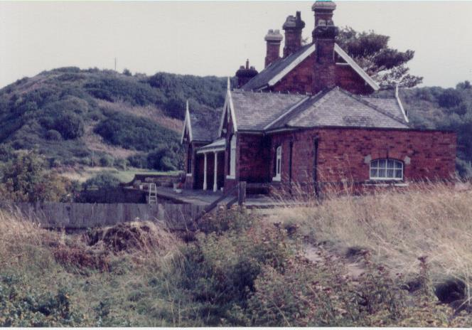 Sandsend railway station (site), Yorkshire, 1981Opened in 1883 on the North Eastern Railway's line from Redcar to Whitby, this station closed in 1958. View south, sometime in the summer of 1981. The building still exists, as a private residence.